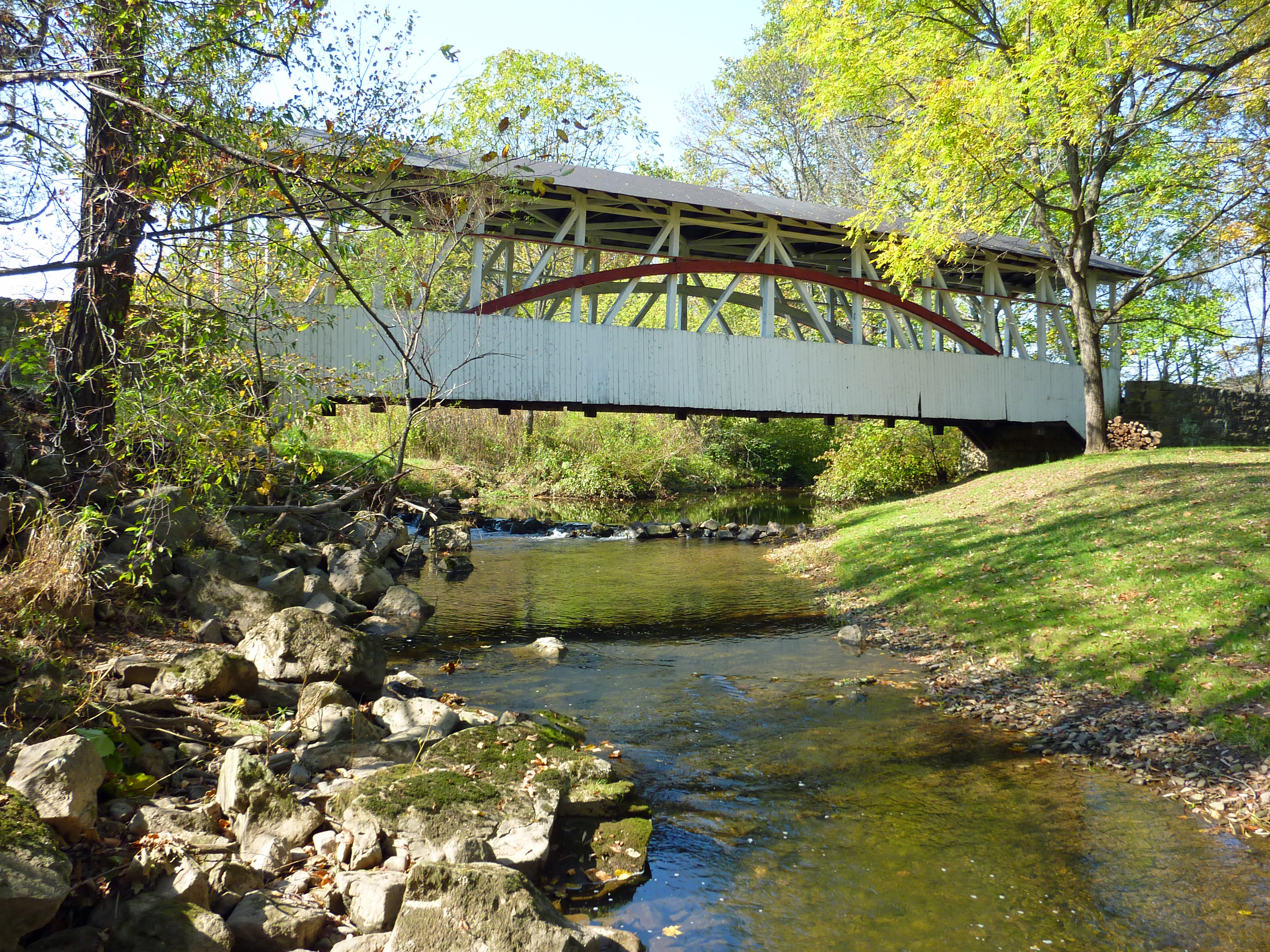 Dr. Knisley Covered Bridge built in 1867 over Dunning Creek in at West St. Clair Township, Bedford County, Pennsylvania, USA. Original text from FLickr: During a family visit back to western PA in October 2010 we hopped in my sister's car and checked out some quaint covered bridges - I think all of them are in Bedford County (but let me know if I'm wrong). The bridges are still in good shape but several are no longer in use. It was a fun day checking these out since I had never seen any of them before. Identification from p. 27 of "Pennsylvania's Covered Bridges" 2nd ed. by Benjamin D. Evans and June R. Evans